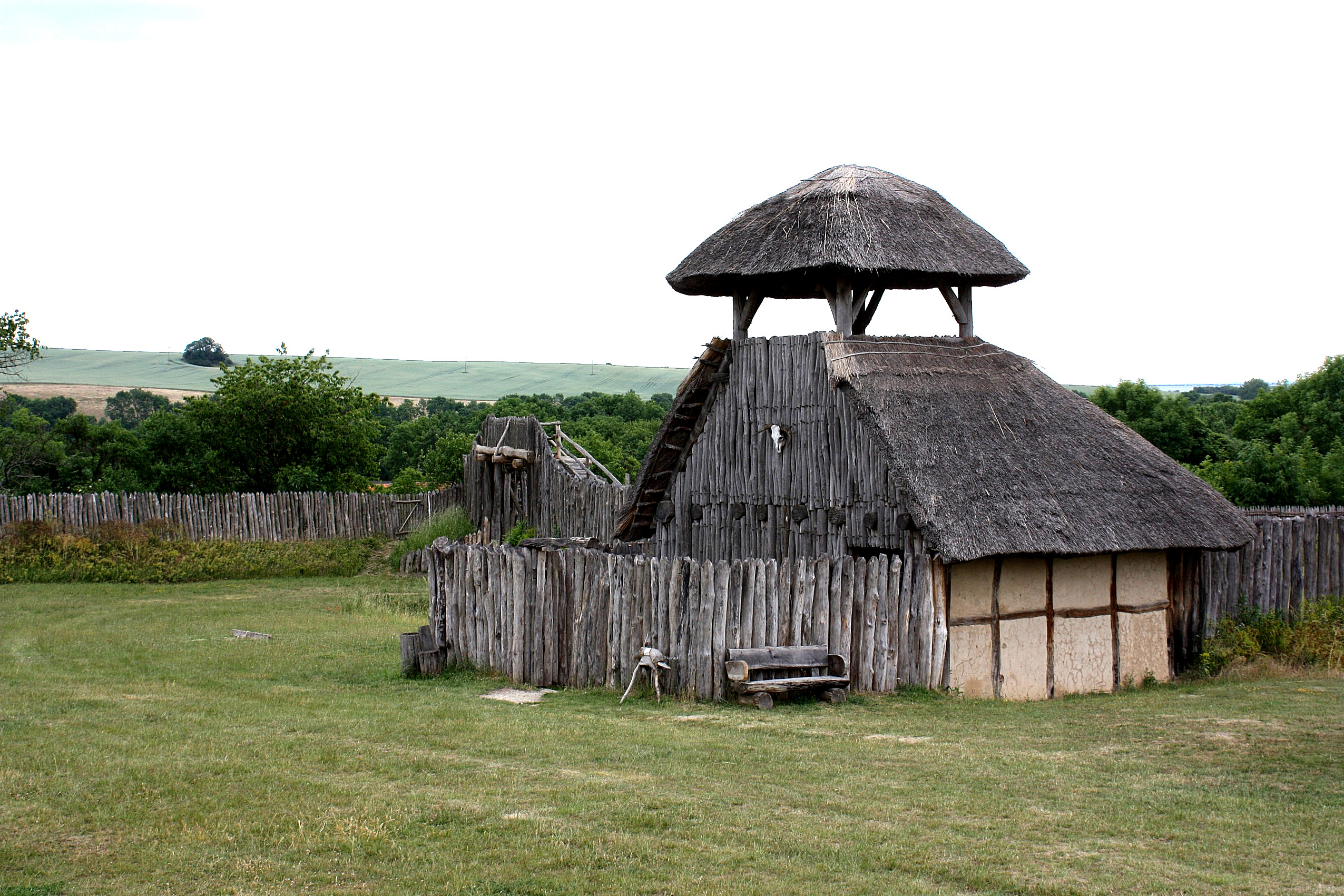 Funkenburg (Westgreußen), the gate house